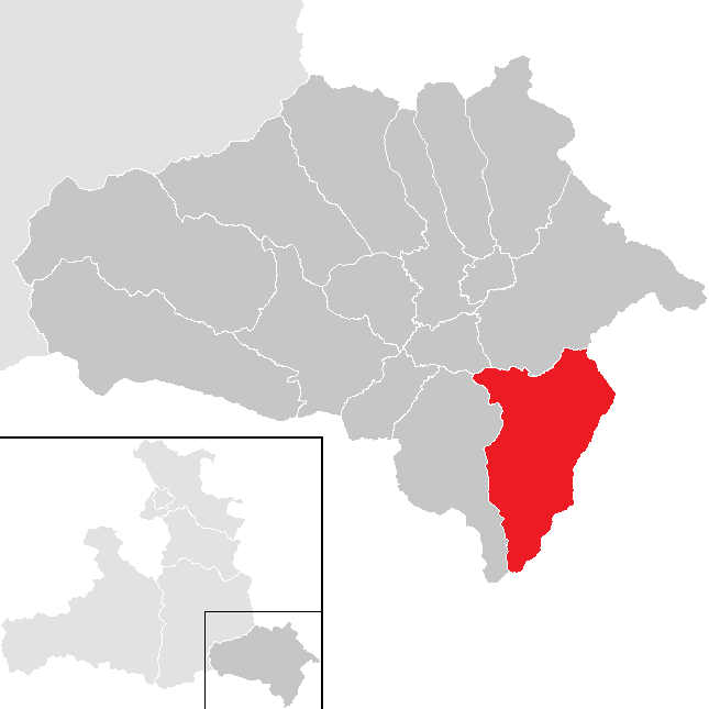 District Tamsweg